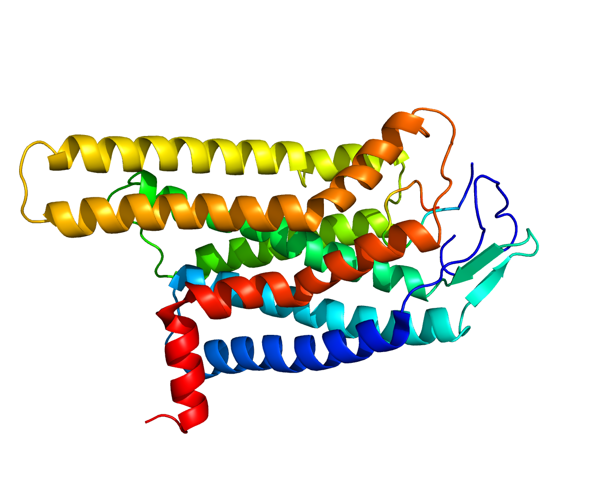 Structure of protein MC4R.Based on PyMOL rendering of PDB 2IQP.